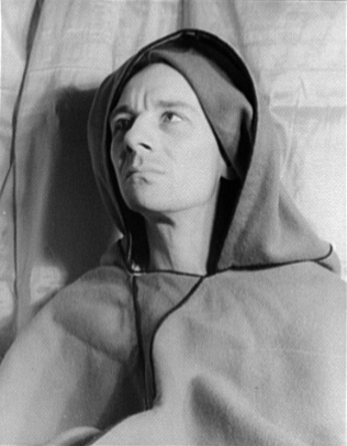 Portrait of John Gielgud (Item 2 of 3) by Carl Van Vechten